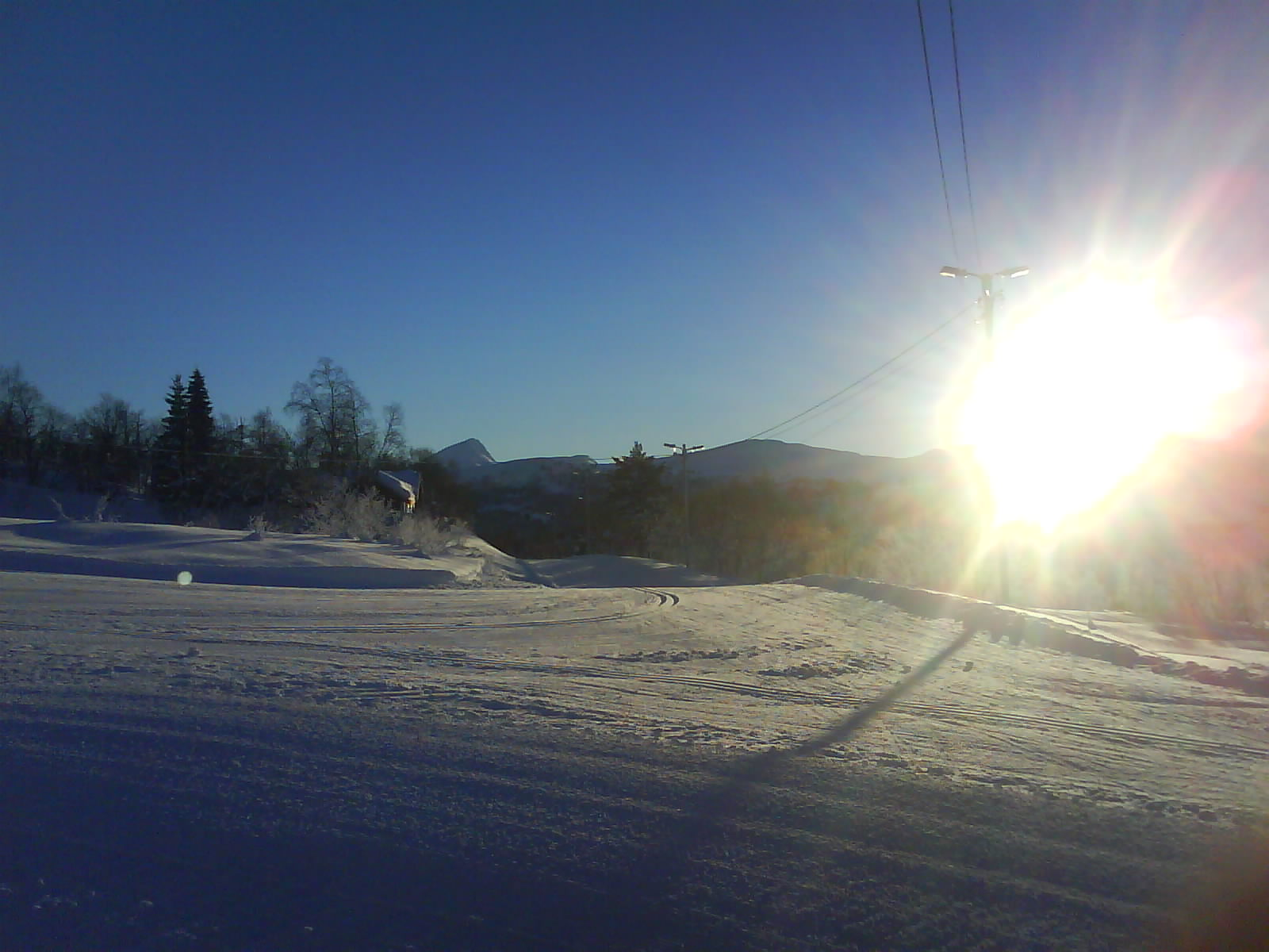 On Strandafjellet Skiingcenter at Sunnmøre in Norway.